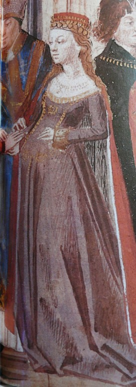 Isabelle of Hainault